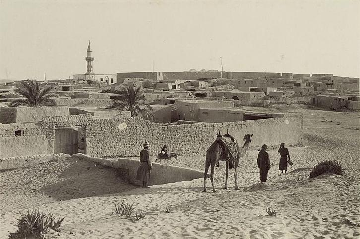 El Arish.